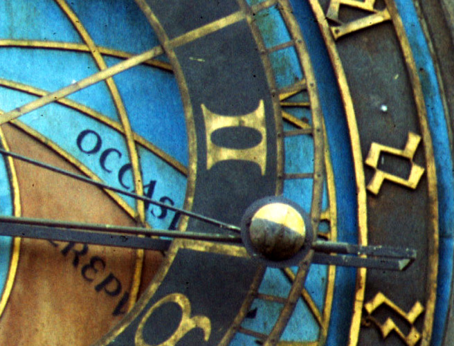 Enlarge